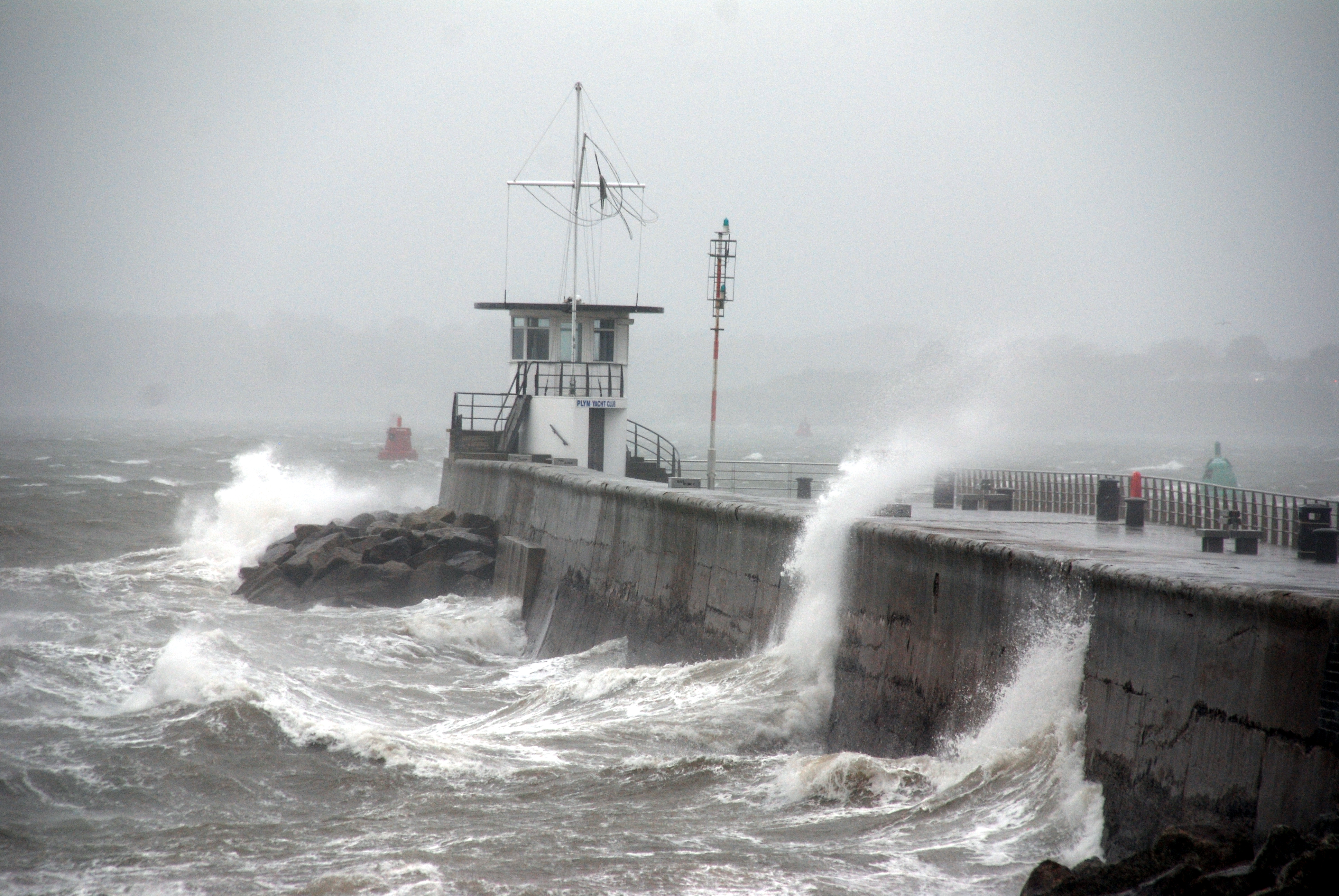 Mount Batten Breakwater during the storm on 3rd January 2012